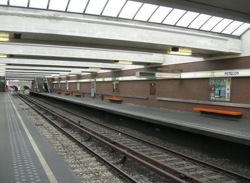 Platforms of Pétillon station, Brussels metro, before renovation